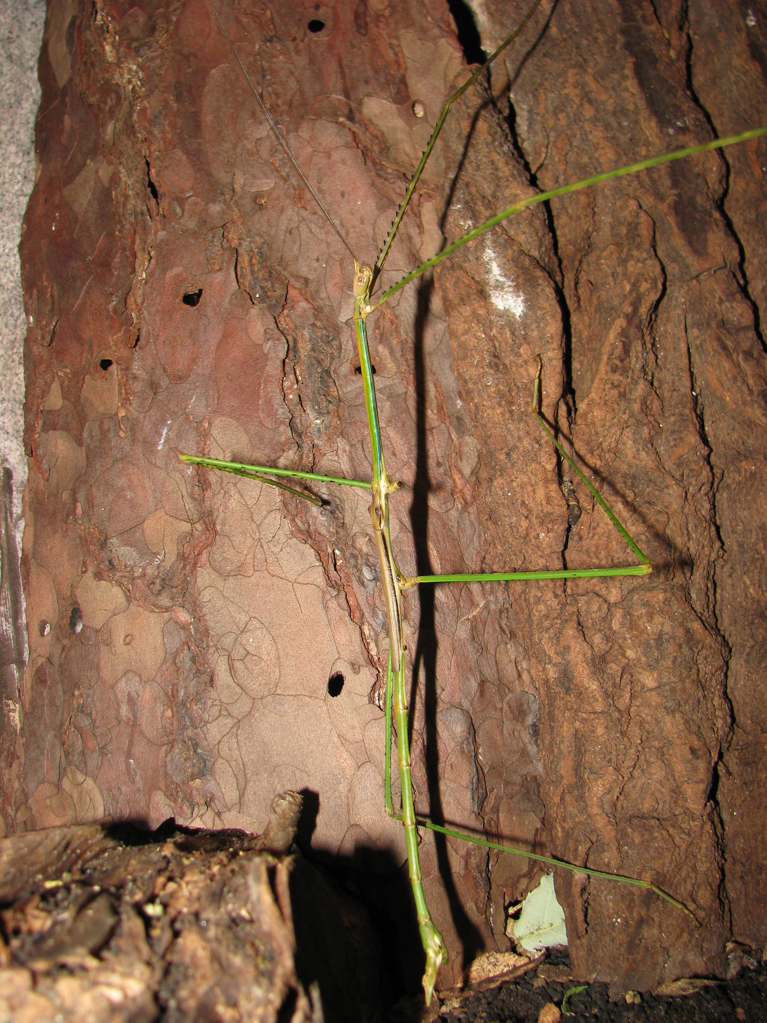 Giant Malayan Stick Insect (Phobaeticus serratipes) green male